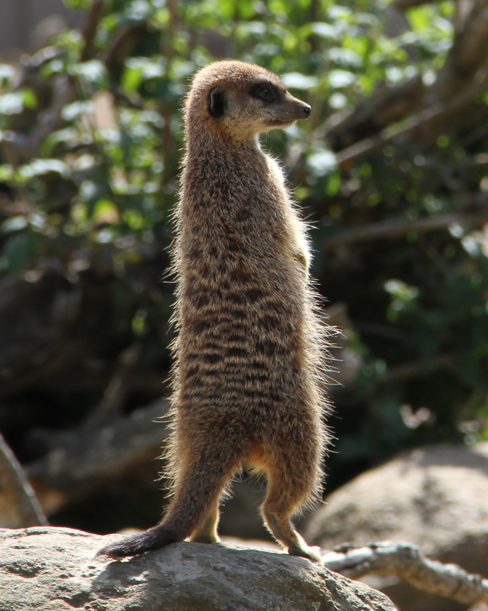 A Meerkat at Durrell Wildlife Park, Jersey